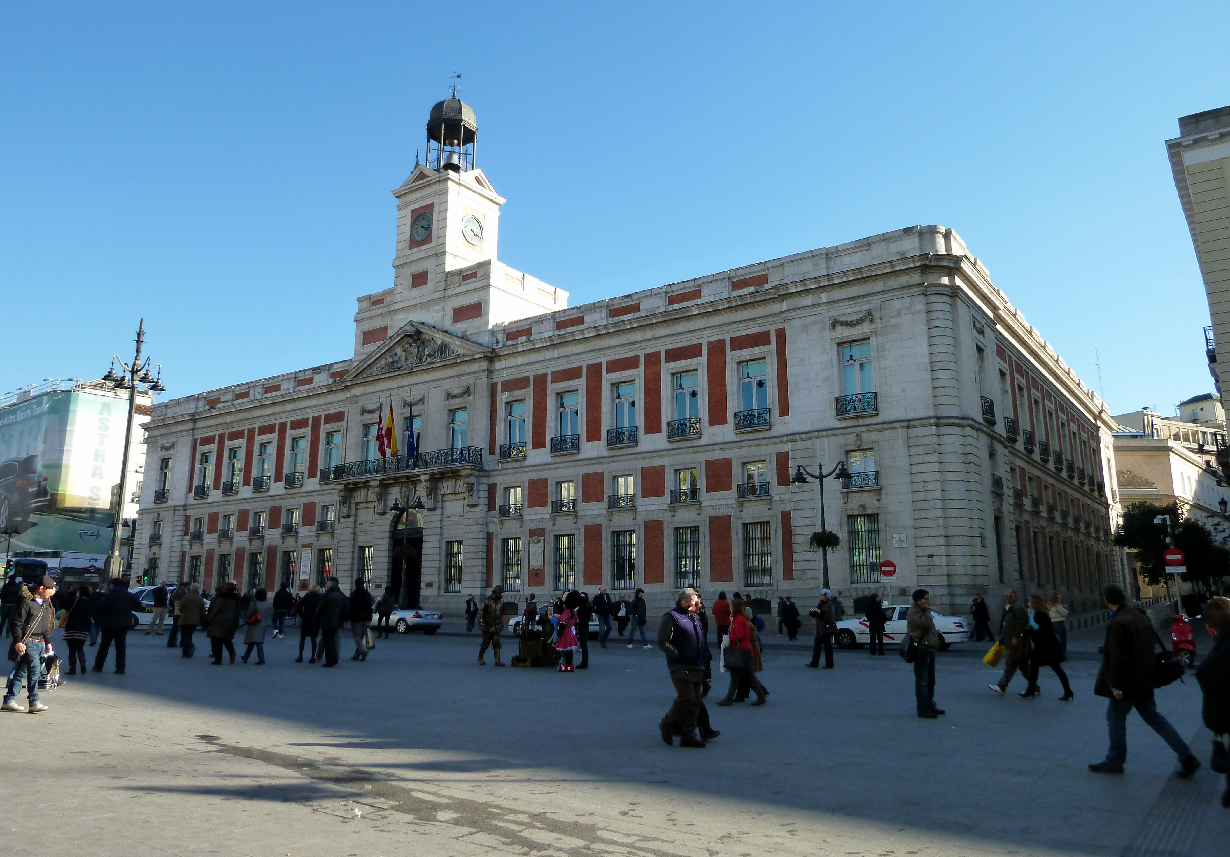 View of Real Casa de Correos in Madrid (Spain) from the north-west angle.